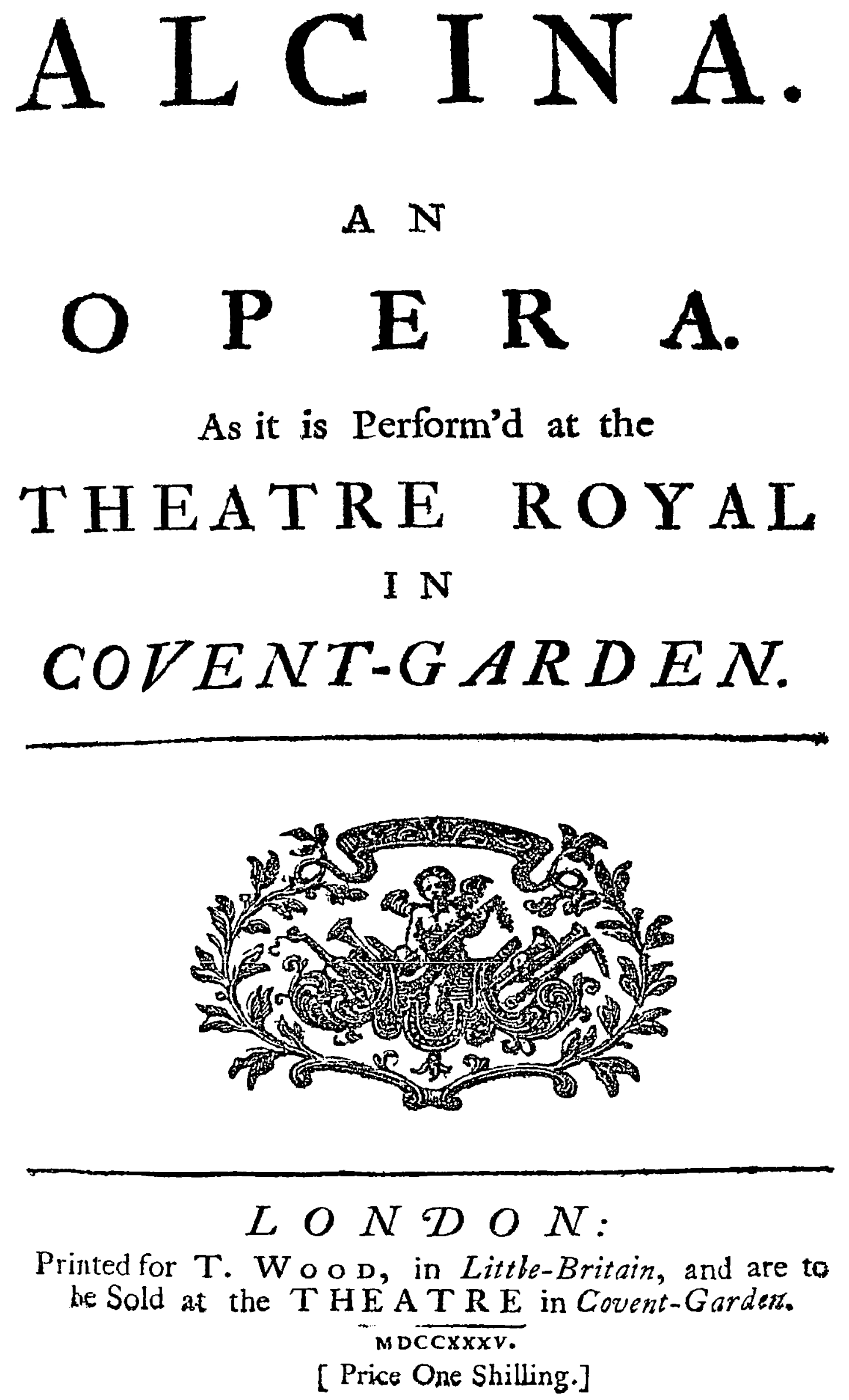 Georg Friedrich Händel - Alcina title page of the libretto - London 1735